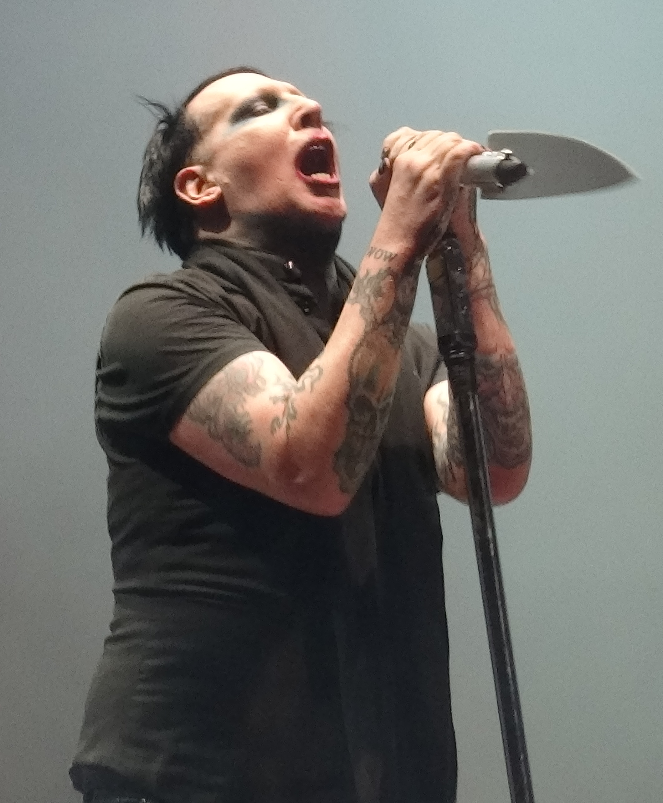 Marilyn Manson Live in Roma 25 july 2017